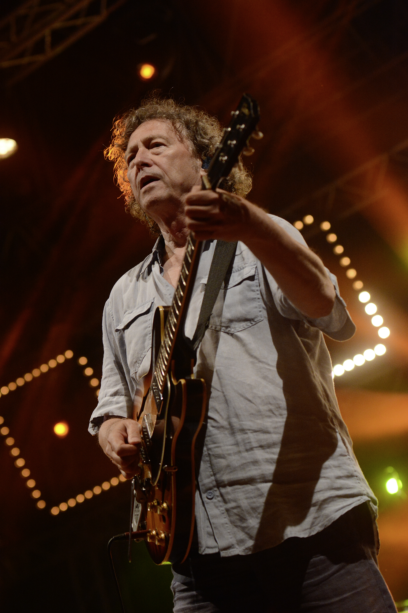 Singer-Songwriter Peter Cornelius (Austria)